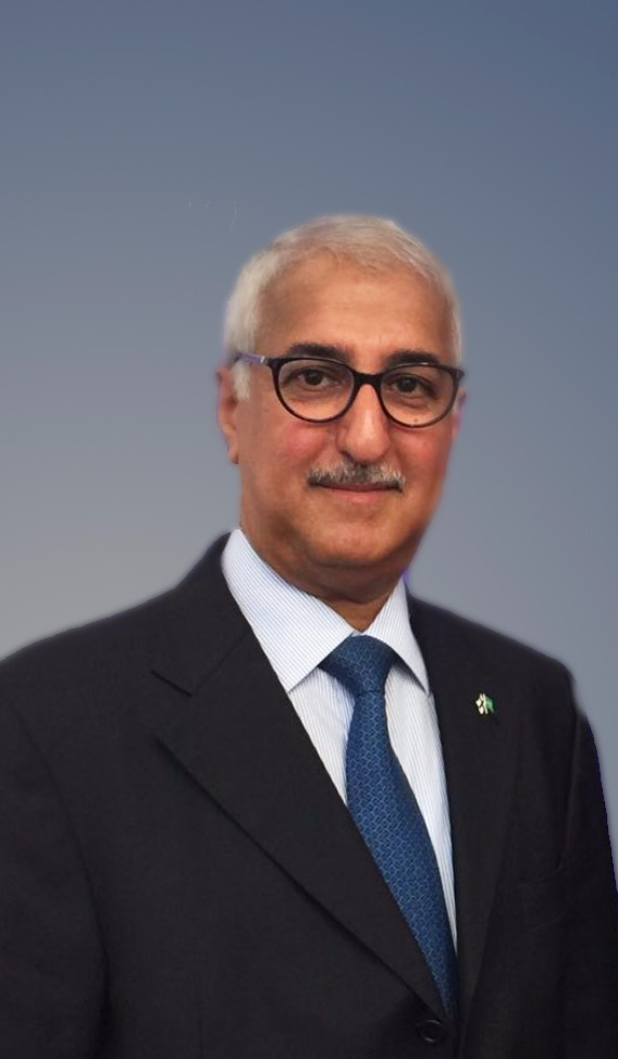 H.E. Dr. Fahad Almubarak